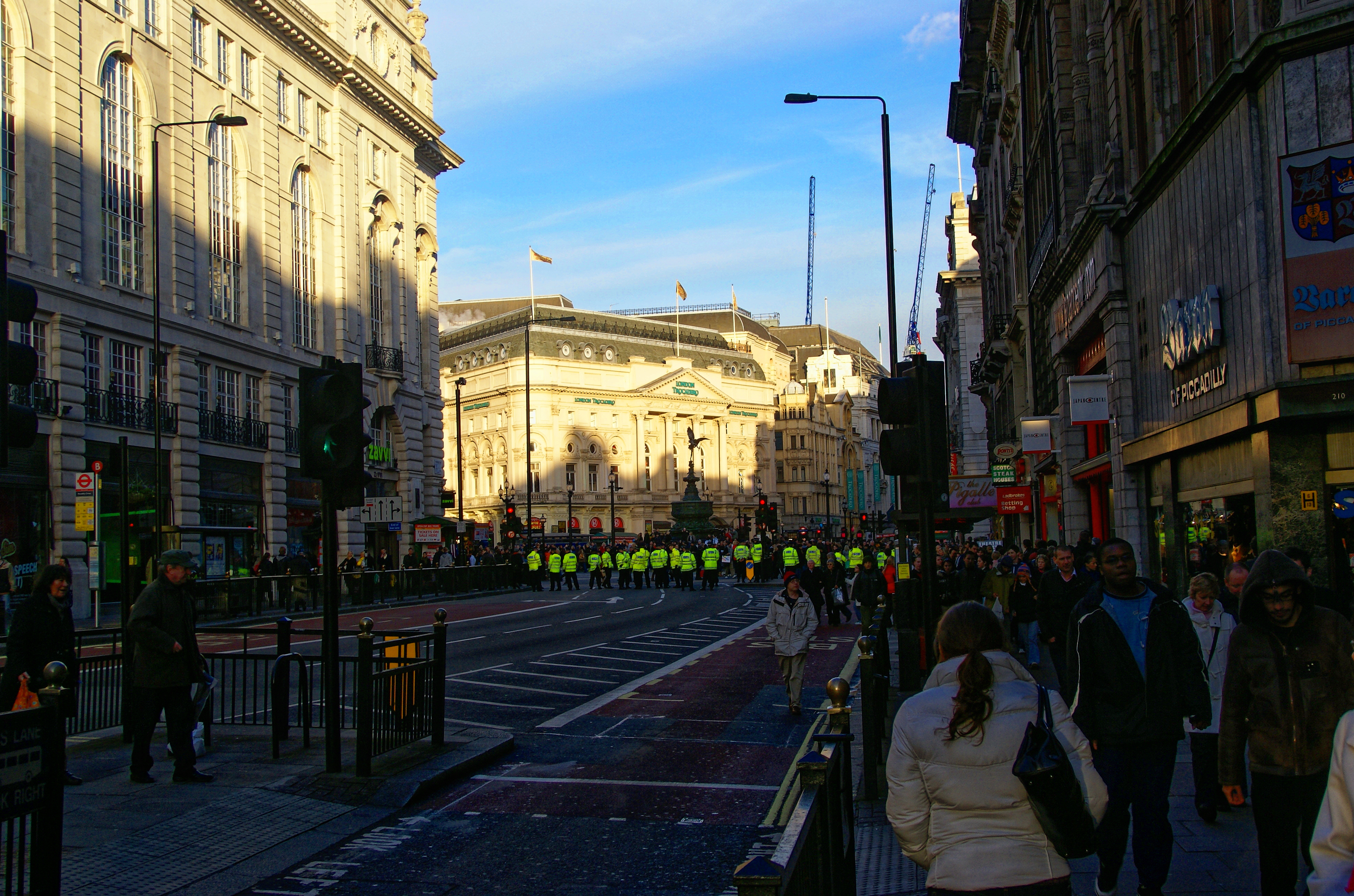 London - Piccadilly - Piccadilly Circus